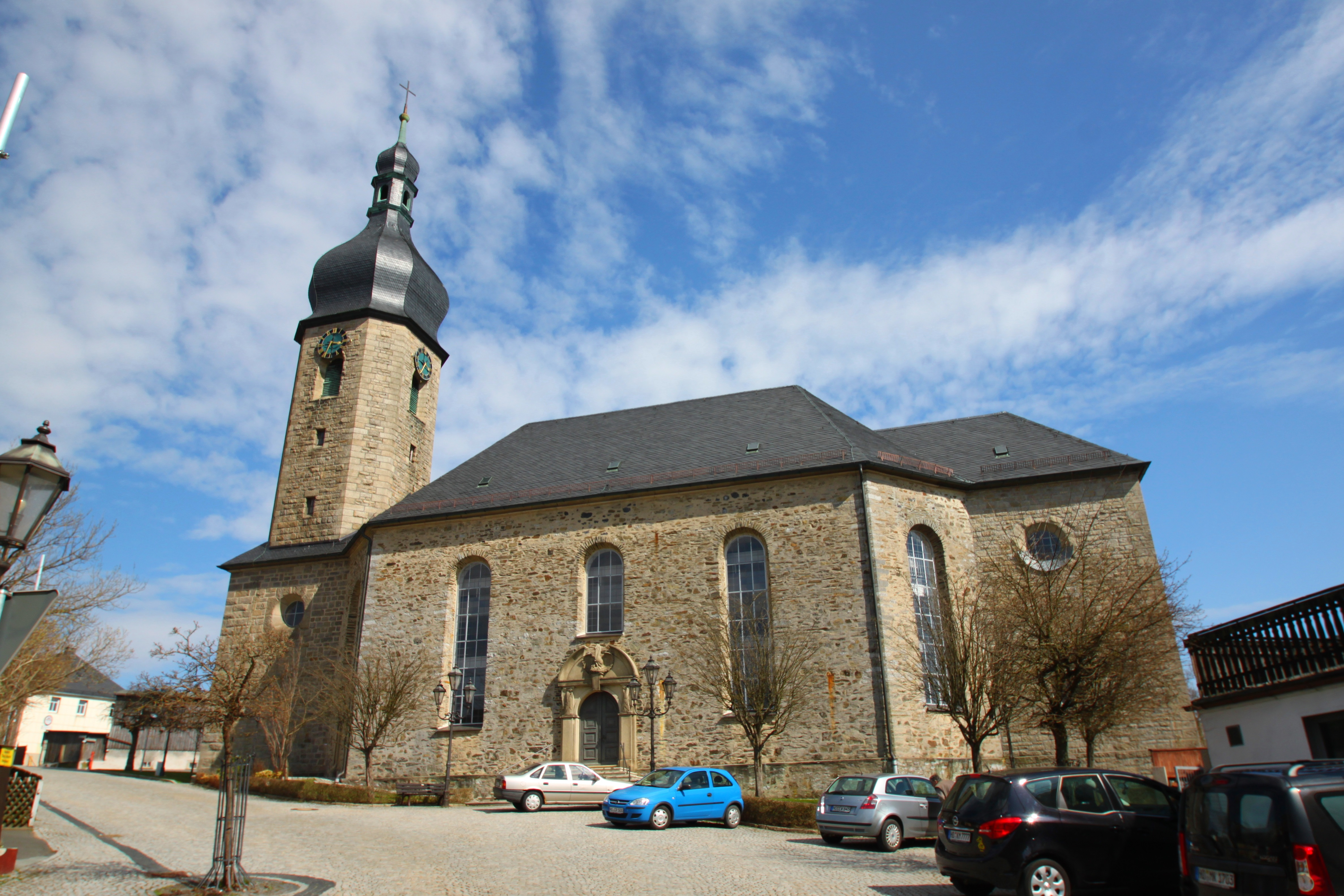 Christ church in Schwarzenbach am Wald